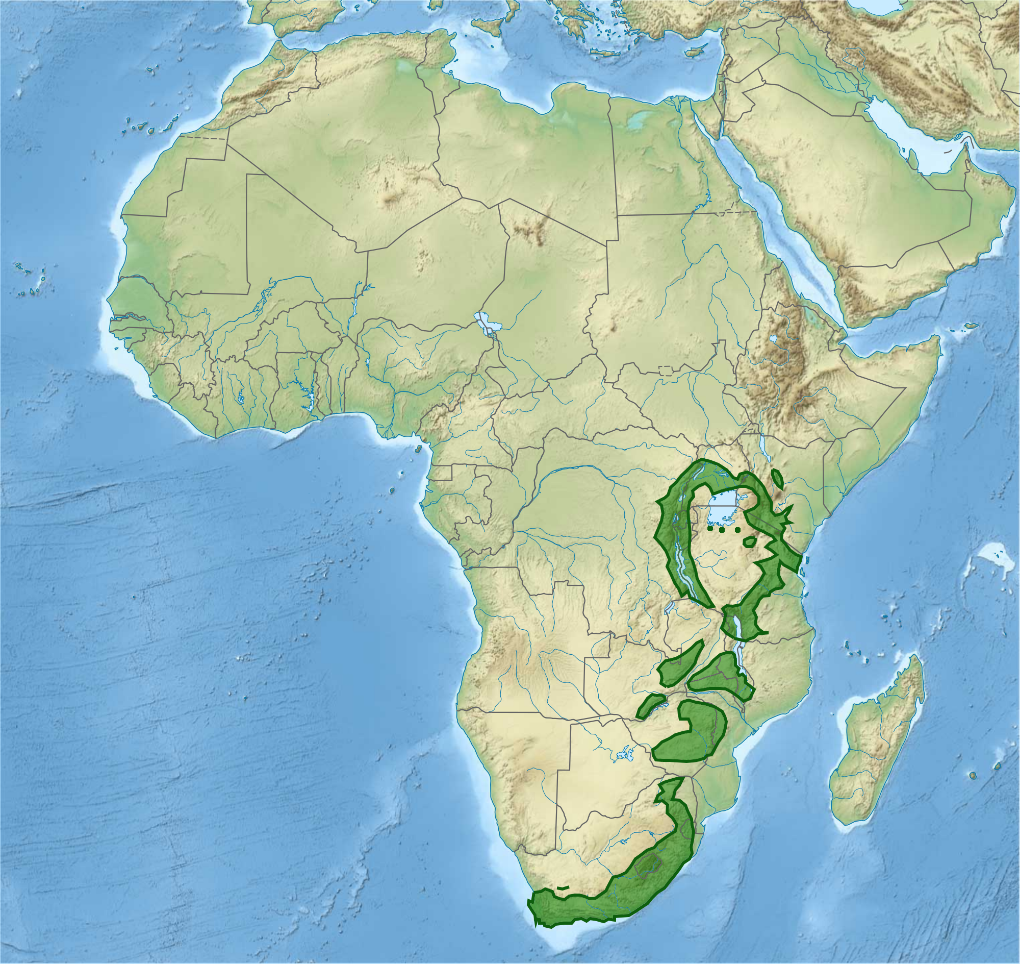 Distribution of the White-necked Raven (Corvus albicollis), based on: Leslie Brown, Emil K. Urban, Kenneth B. Newman: The Birds of Africa. Vol. 6: Picathartes to Oxpeckers. Academic Press, 2000. ISBN 0121373061, p. 550. Austin Roberts: Roberts birds of Southern Africa. Voelcker Bird Book Fund, Kapstadt 2005. ISBN 0-620-34053-3, S. 724.